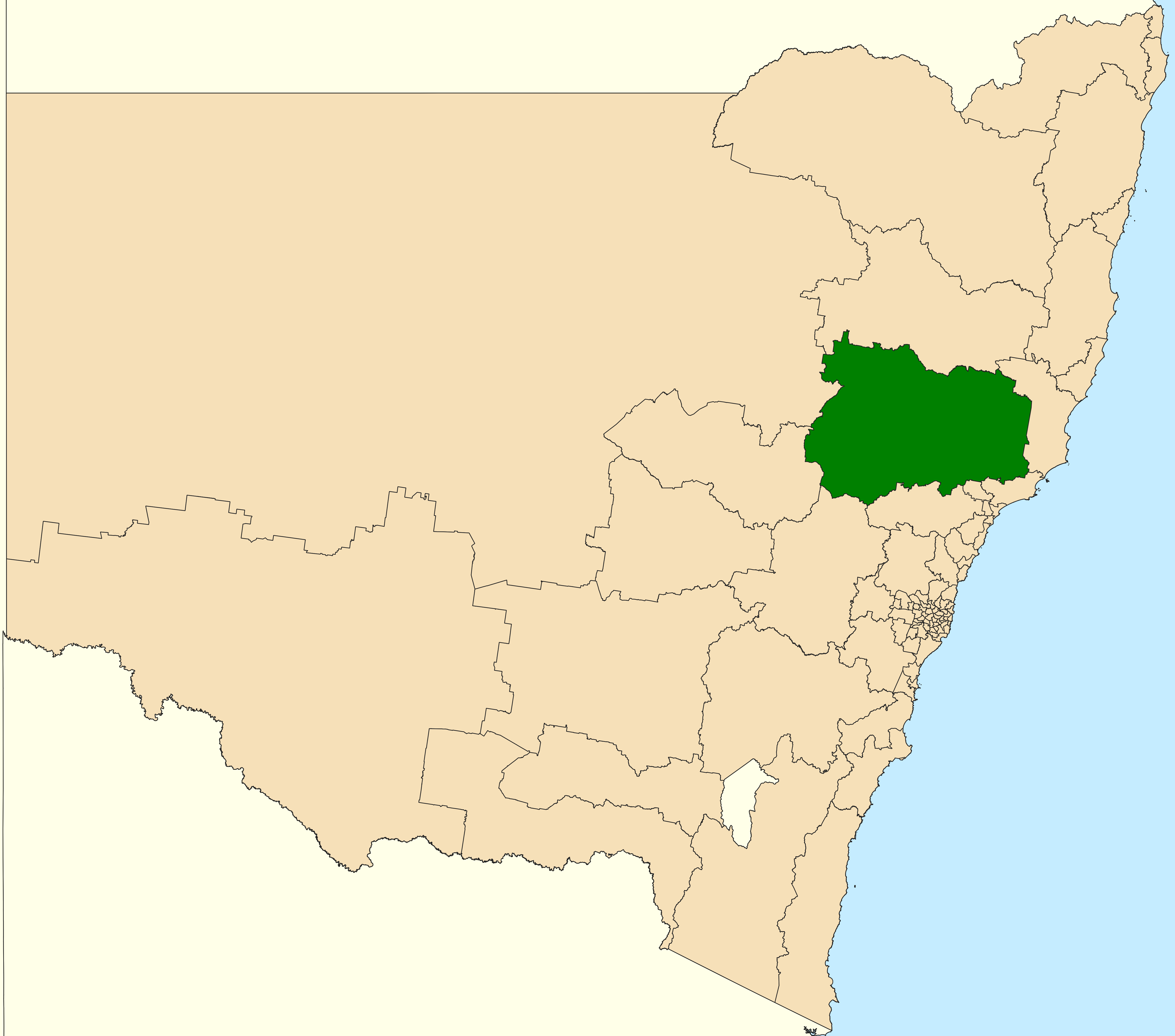 Location of the state electoral district of Upper Hunter (dark green) in New South Wales as of the 2019 New South Wales state election. Incorporates or developed using Administrative Boundaries ©PSMA Australia Limited licensed by the Commonwealth of Australia under Creative Commons Attribution 4.0 International licence (CC BY 4.0).